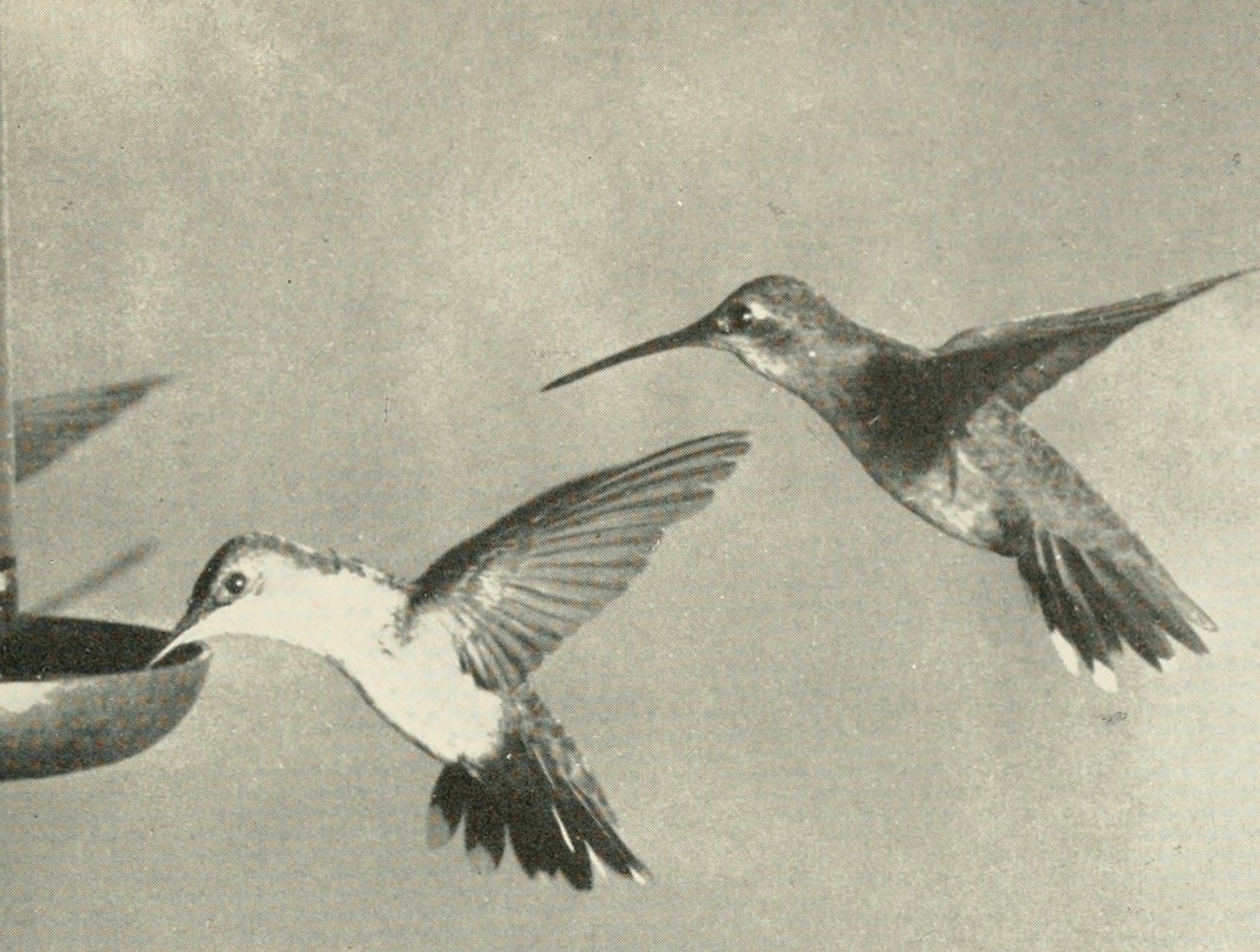 Title: Bulletin - United States National Museum Year: 1877 (1870s) Authors: United States National Museum; Smithsonian Institution; United States. Dept. of the Interior Subjects: Science Publisher: Washington : Smithsonian Institution Press, (etc. ); for sale by the Supt. of Docs. , U. S. Govt Print. Off. Text Appearing Before Image: U. S. NATIONAL MUSEUM BULLETIN 176 PLATE 55 Text Appearing After Image: Holderiifss, N. 1 H. K. Edgerton. Mrs. Laurence J. Webster and her pets. Ruby-throated Hummingbirds.